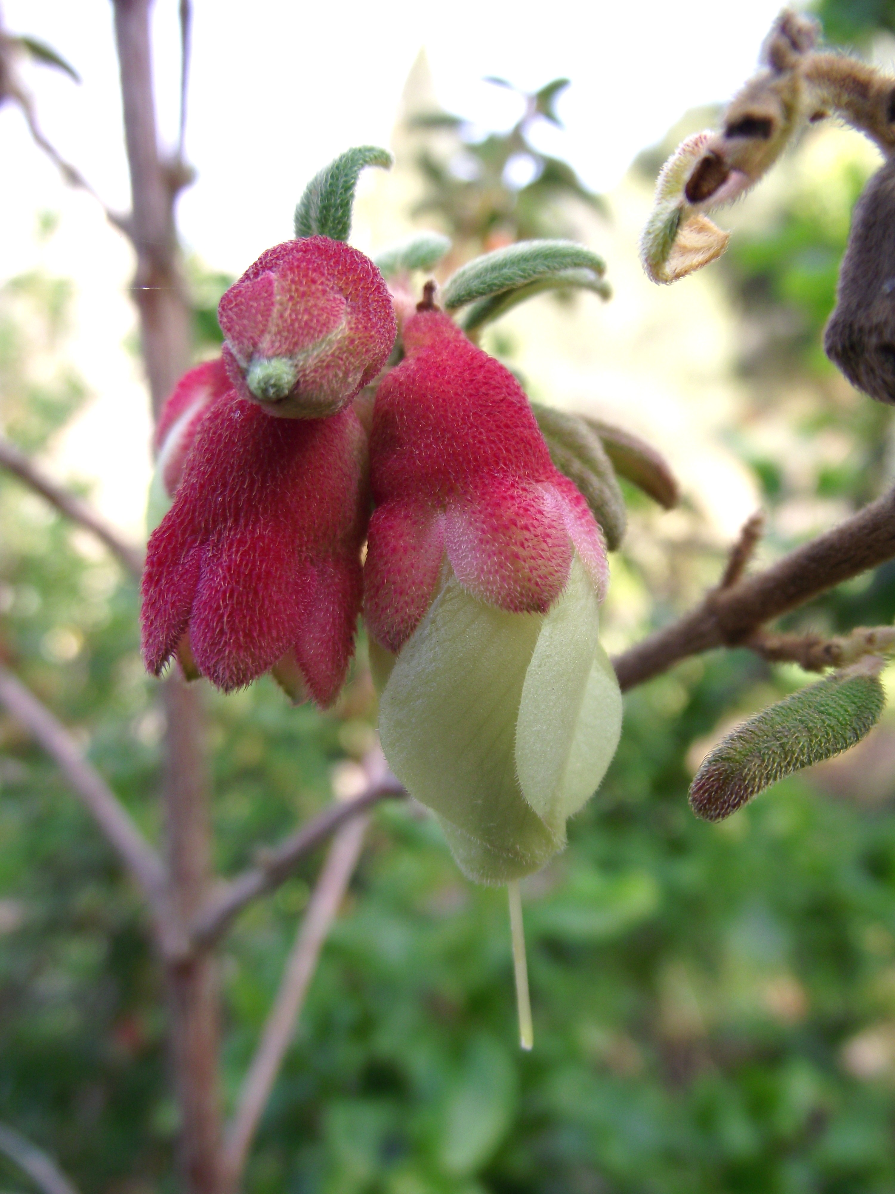 Brachyotum ledifolium at the UC Botanical Garden, Berkeley, California, USA. Identified by sign.